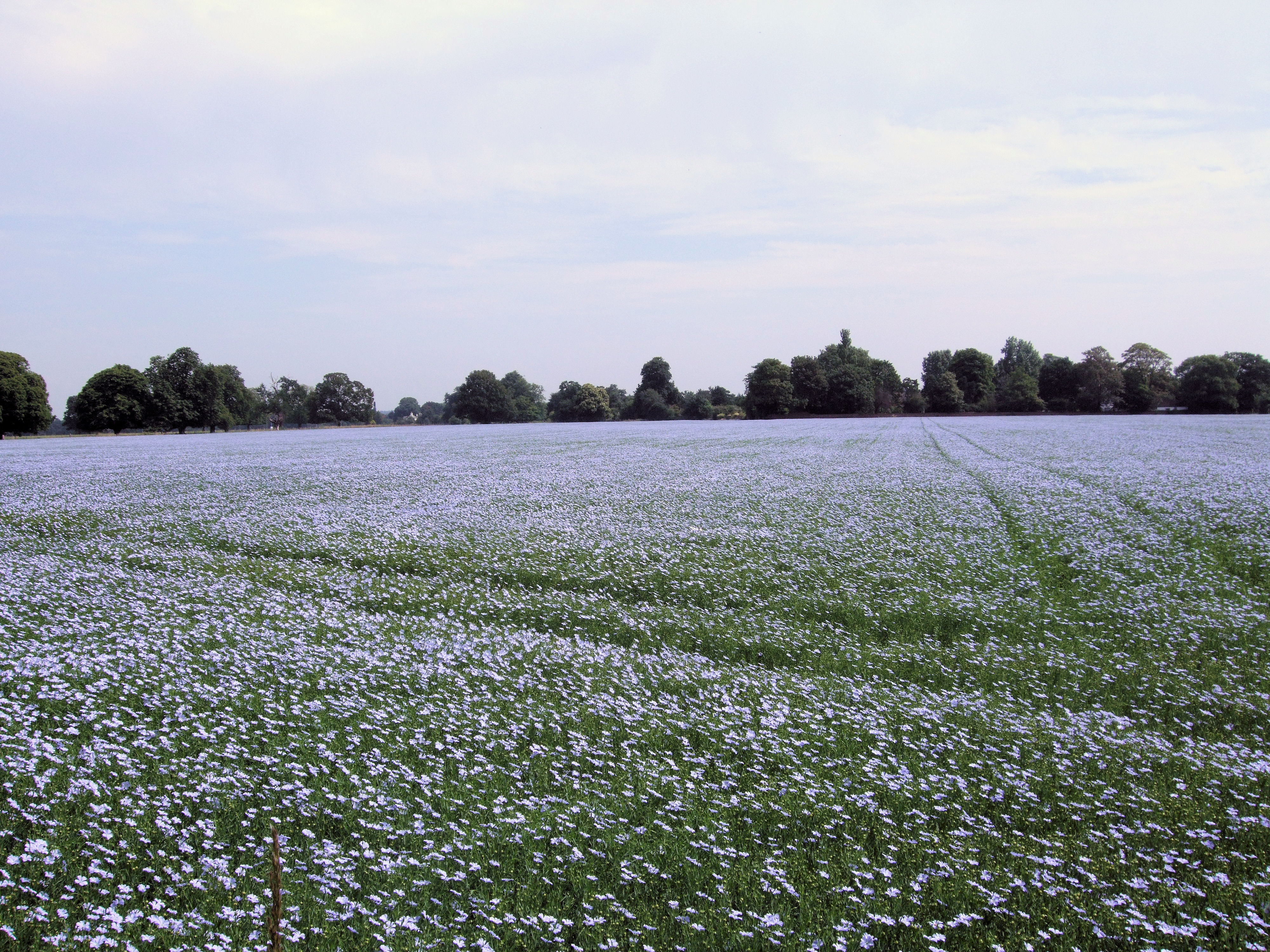 Flowering flax field, Osterley Park, London, England. Flax (also known as common flax or linseed) (binomial name: Linum usitatissimum) is a member of the genus Linum in the family Linaceae.